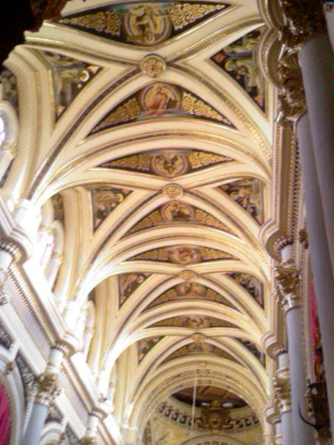 Interior of San Gejtanu Sanctuary, Hamrun (the dome under reinstatement)